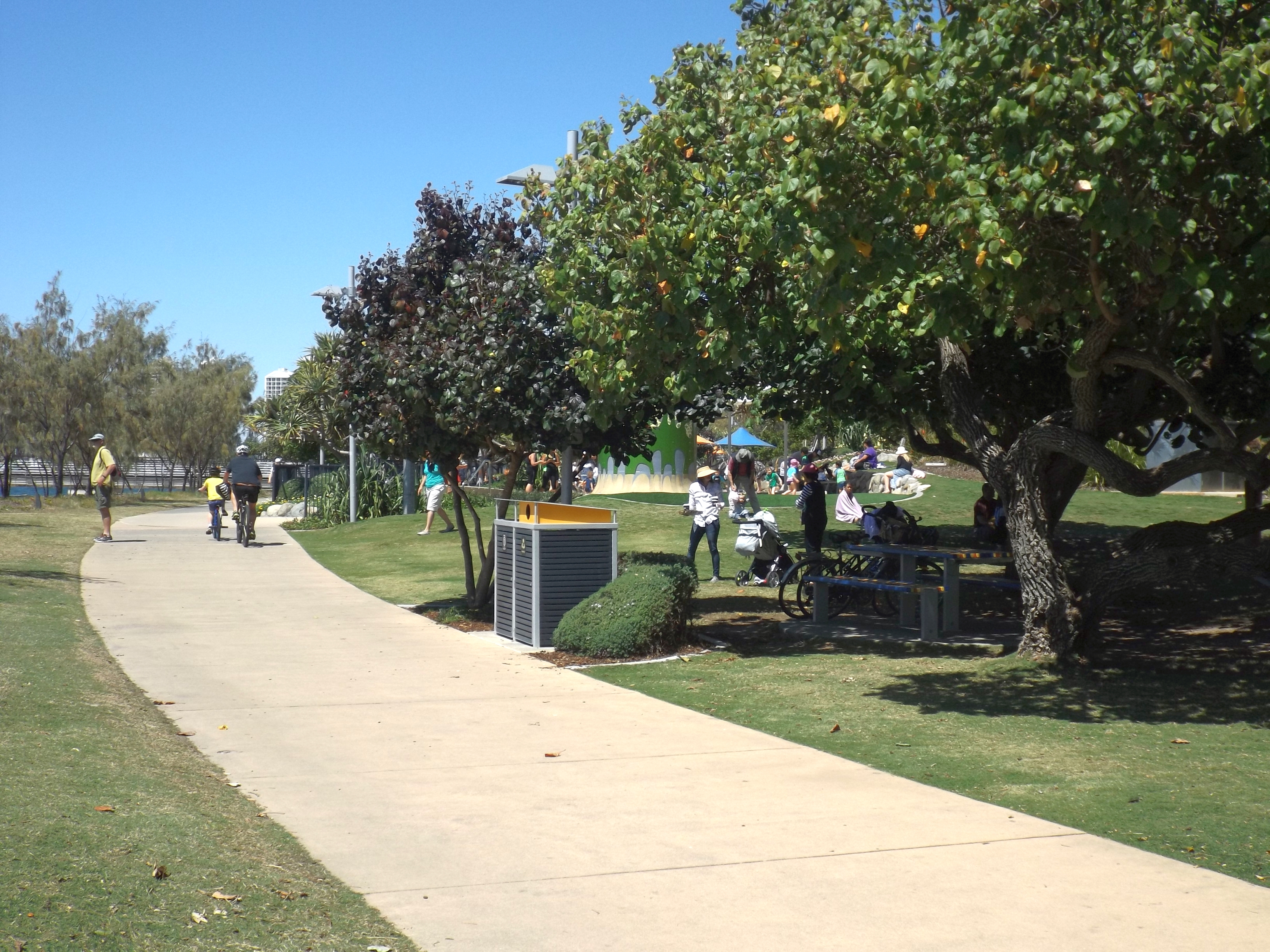 Photo of the Southport Broadwater Parklands at Southport, Gold Coast City, Queensland, Australia.